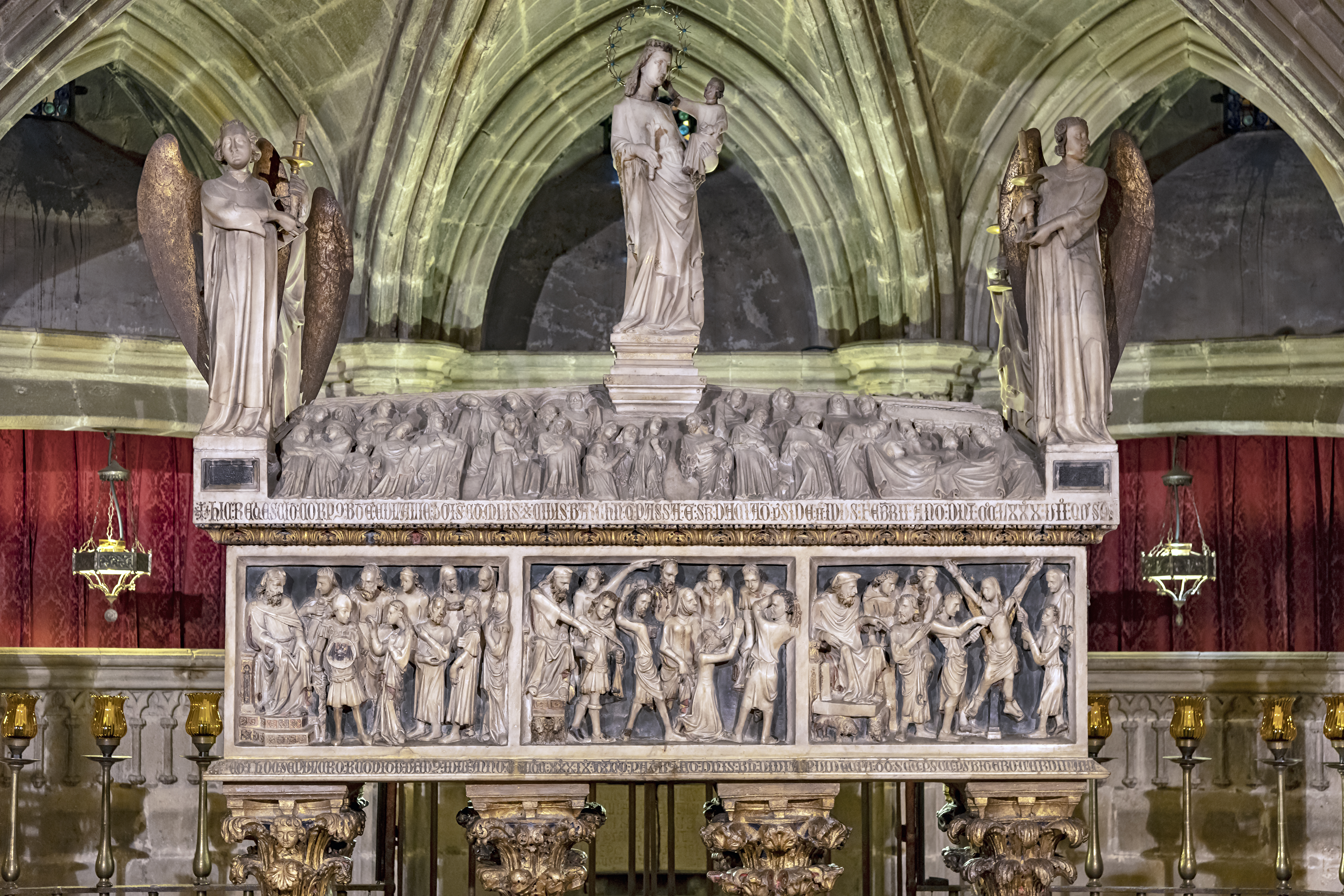 The Cathedral of the Holy Cross and Saint Eulalia in Barcelona. Tomb of Eulalia of Barcelona by Lupo di Francesco.